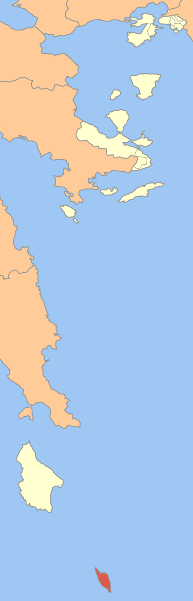 Locator map of Andikythira community (Κοινότητα Αντικυθήρων) in Pireas Nomarchia (Νομαρχία Πειραιά) in Greece.